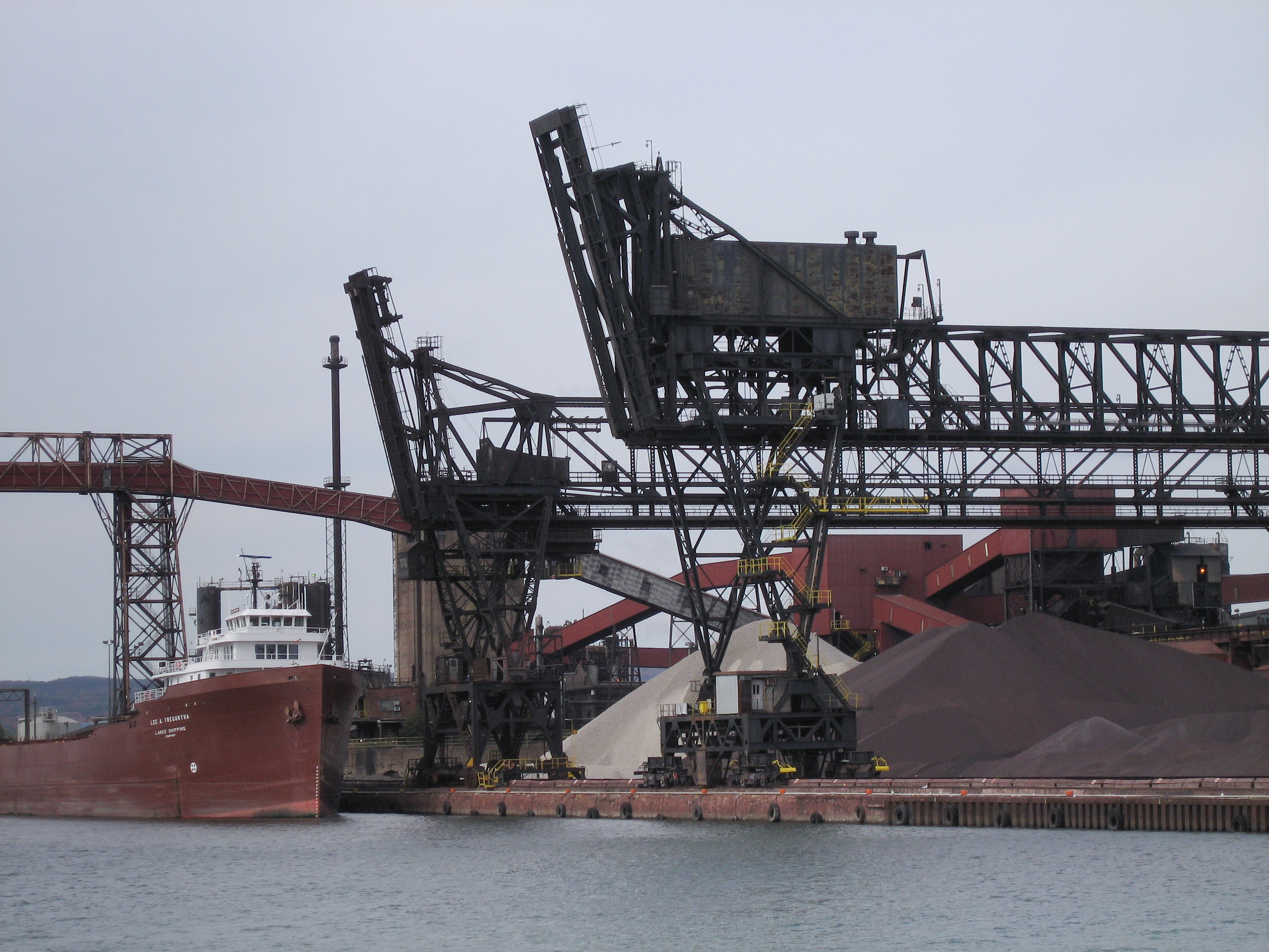 The Essar Algoma Steel plant in Sault Ste. Marie, Ontario, Canada.